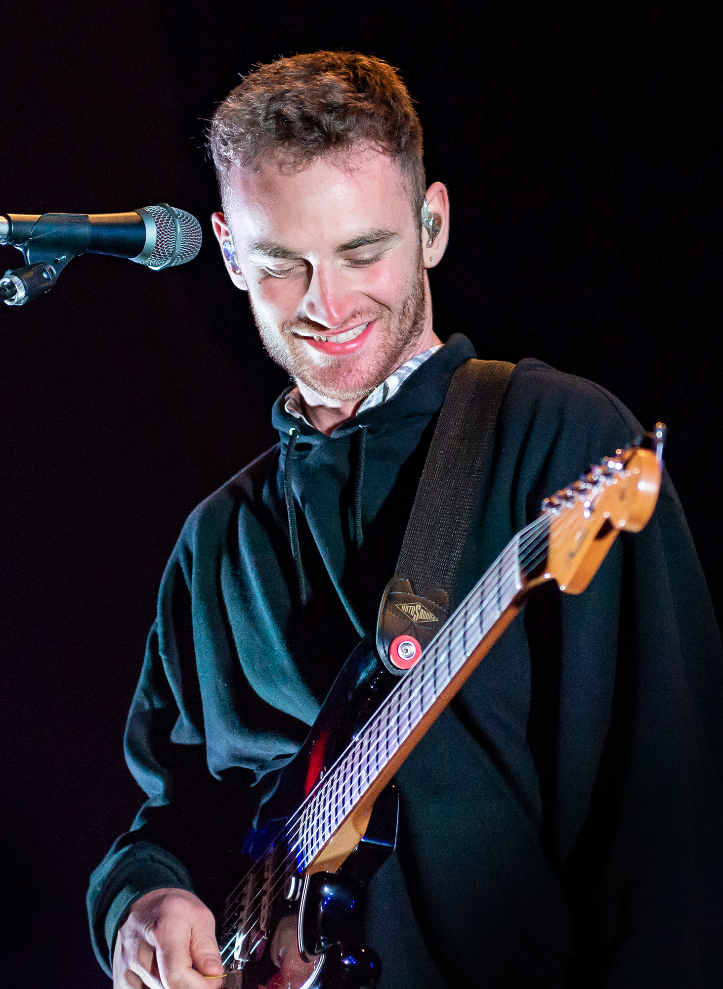 Tom Misch performing live at The Novo in downtown Los Angeles, California, on Wednesday, April 18, 2018.